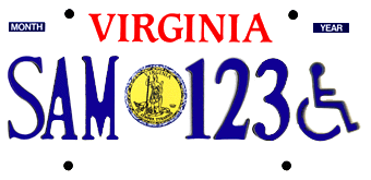 Fictional example Commonwealth of Virginia handicapped license plate, created by the uploader.